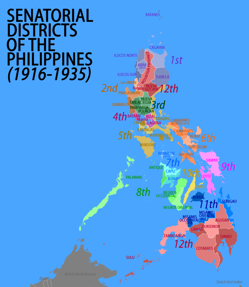 Map showing the senatorial districts of the Philippine Islands from 1916-1935. Credit for provincial boundaries go to Coffee.